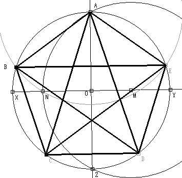 Picture of a pentagon, self drawn